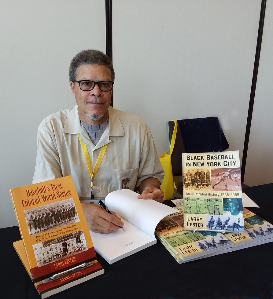 Author, researcher, lecturer Larry Lester autographs one of his books at SABR 48, held in Pittsburgh 2018